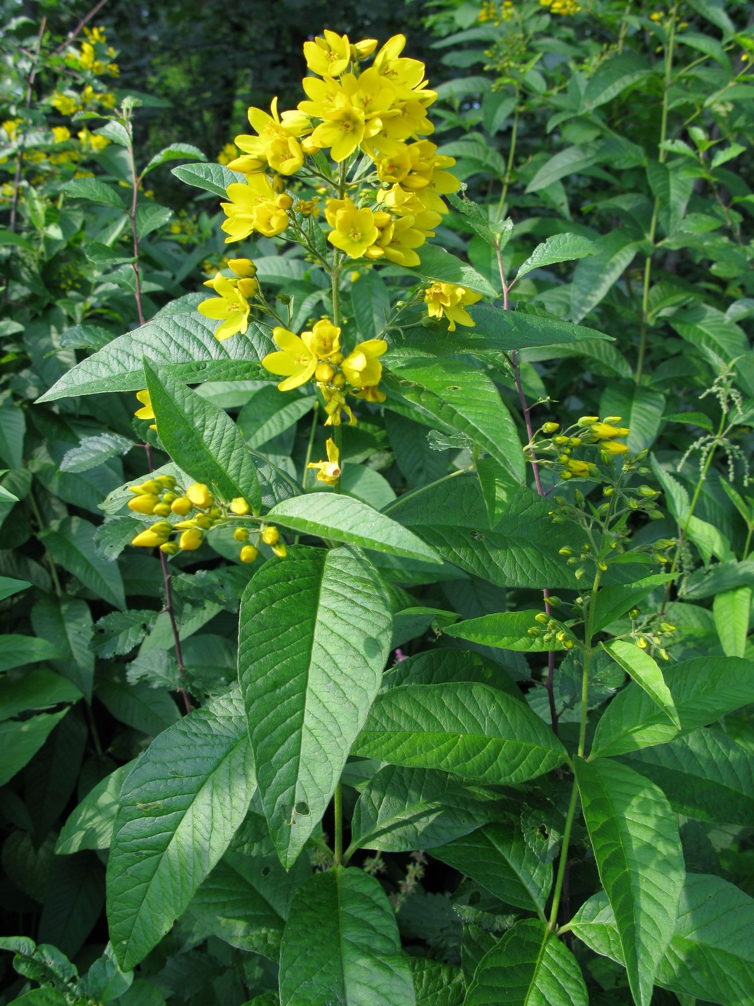 Hamburg, Germany